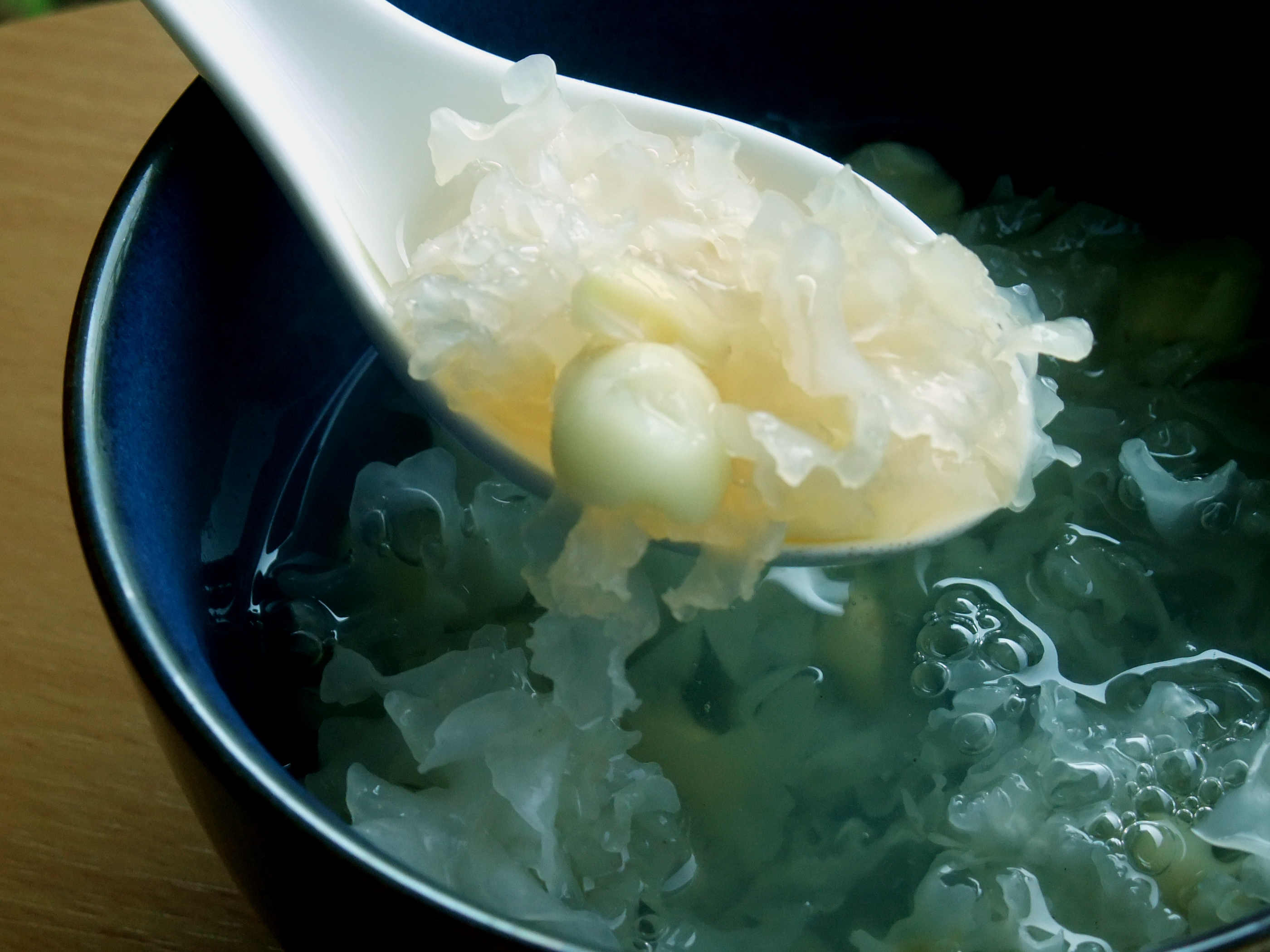 A Chinese dessert made with Tremella fuciformis